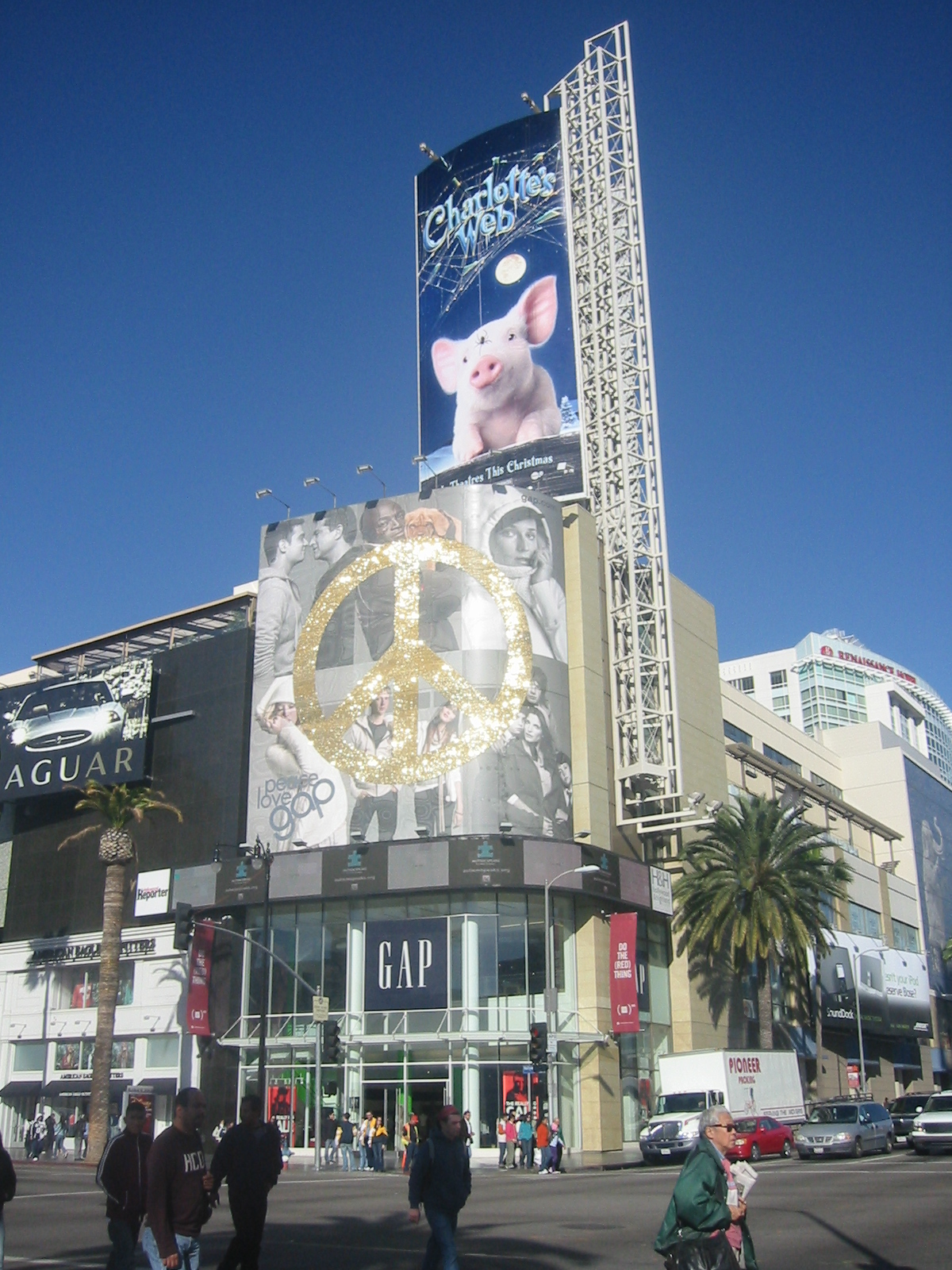 Corner facade of the Hollywood and Highland Center — at Hollywood Boulevard and Highland Avenue, in central Hollywood, California.